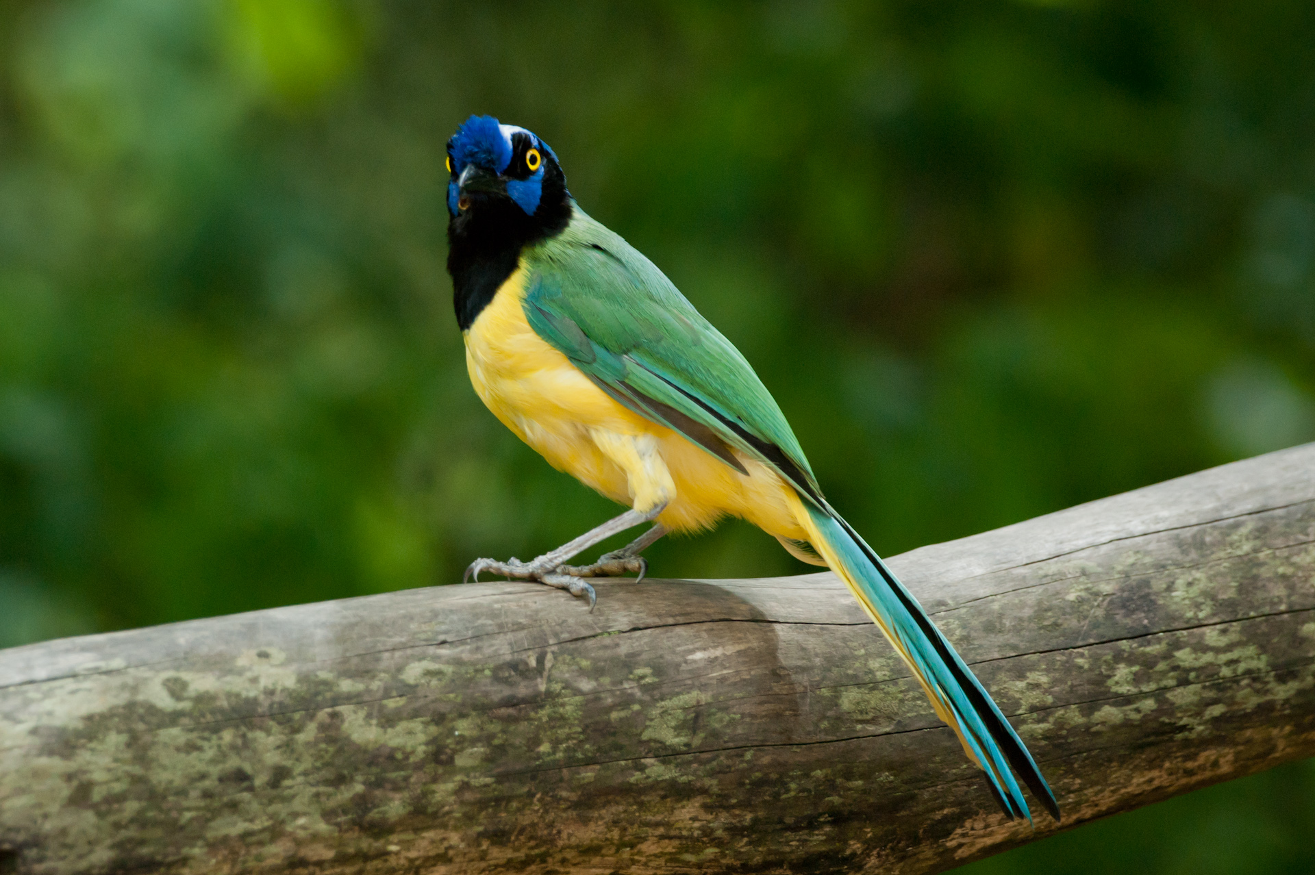 Cyanocorax yncas in the Warairarepano National Park, Caracas, Venezuela